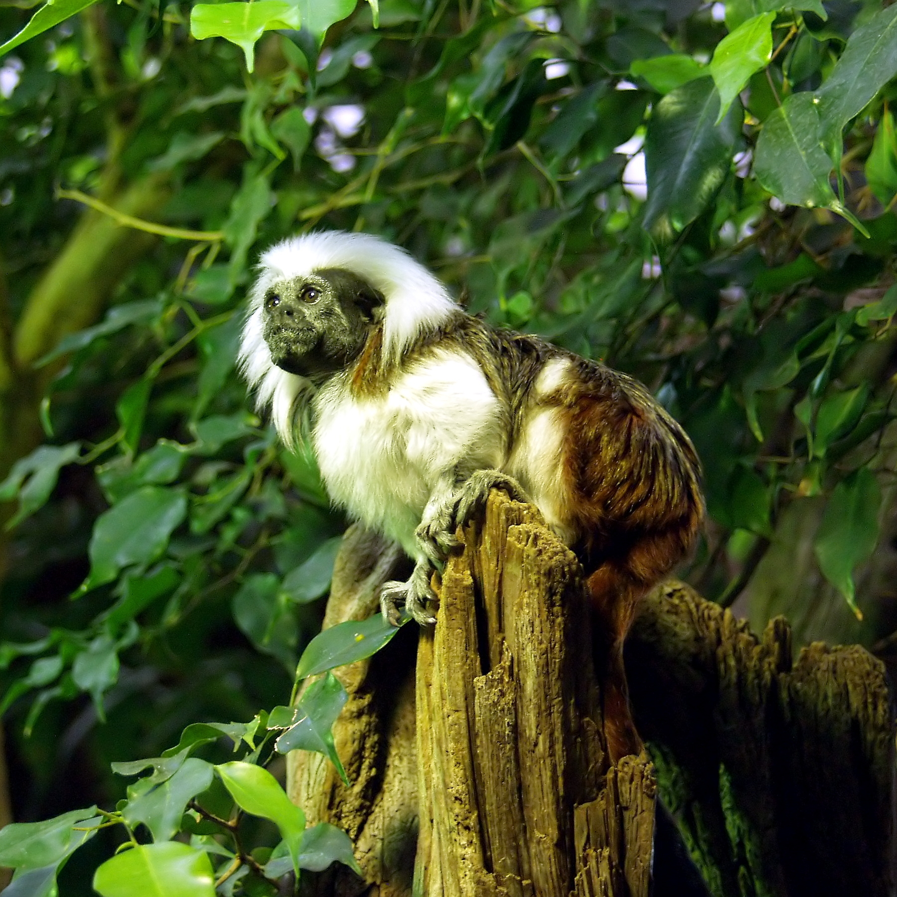 Cottontop Tamarin (Saguinus oedipus) in Zoo Duisburg